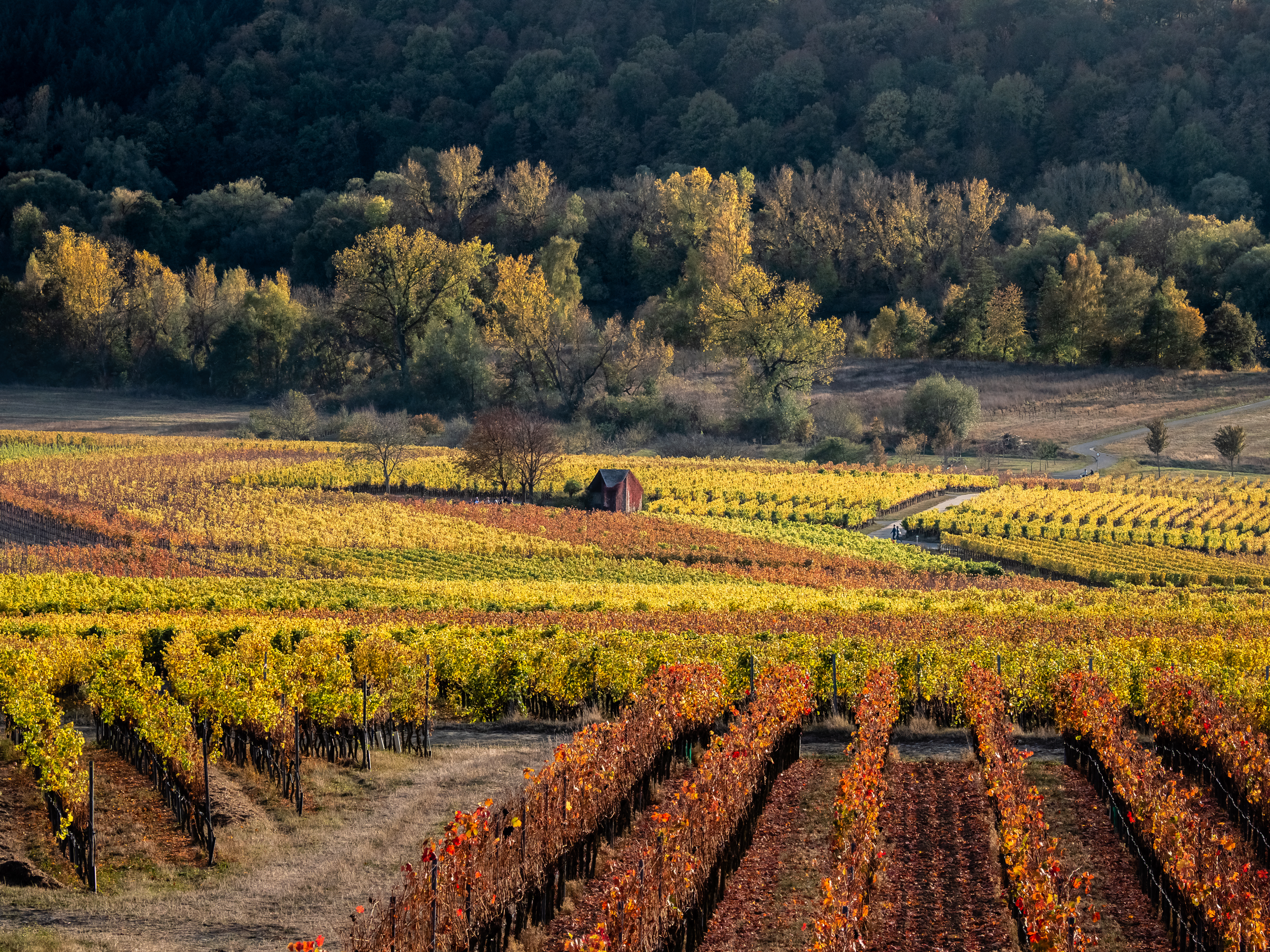 River Main valley near Sommerach